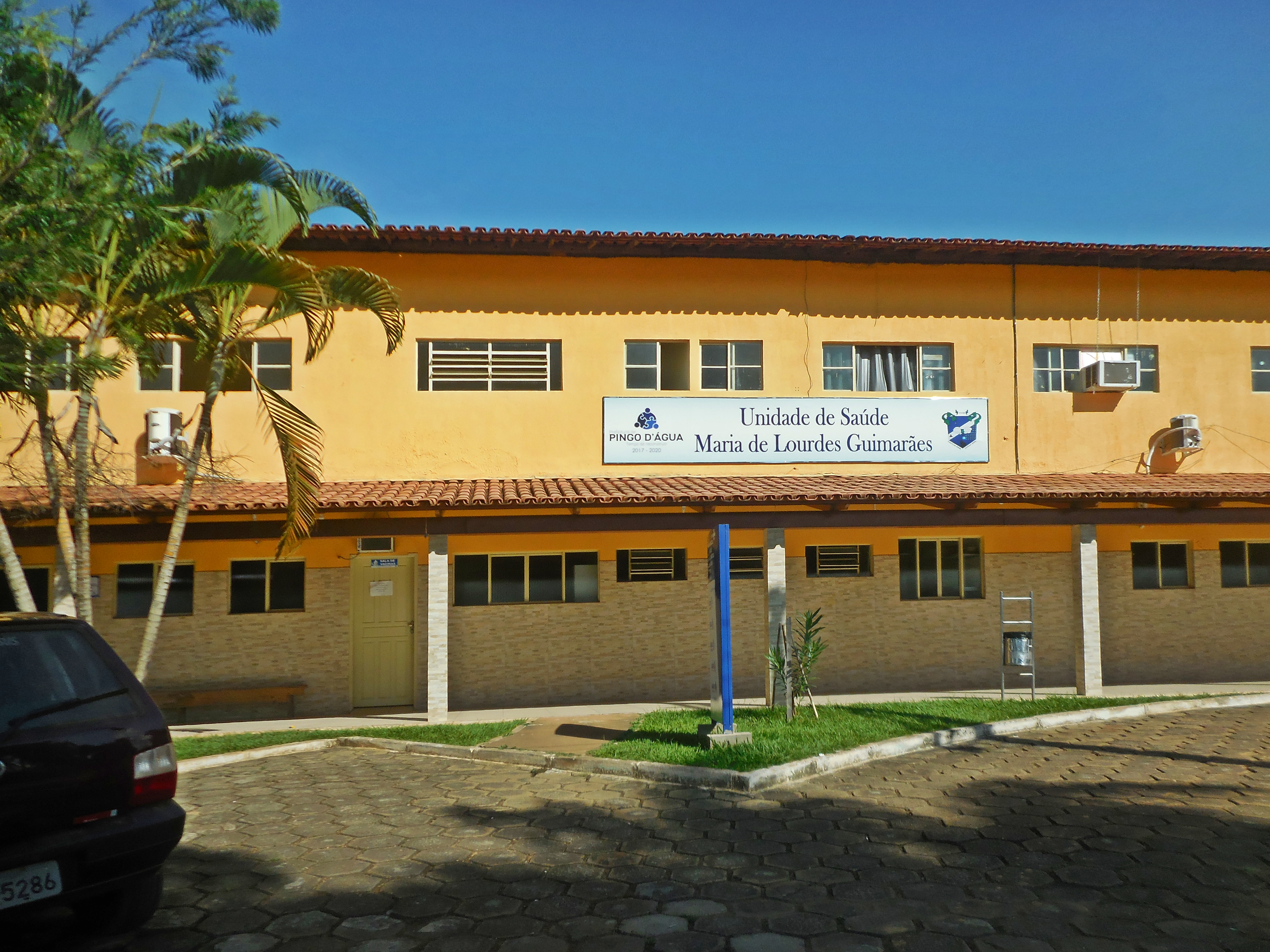 Facade of the Health Center Maria de Lourdes Guimarães, in Pingo-d'Água, Minas Gerais, Brazil.